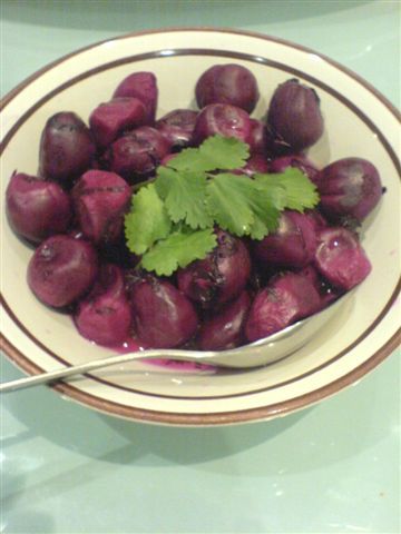 One of my favourite types of pickles ... =)